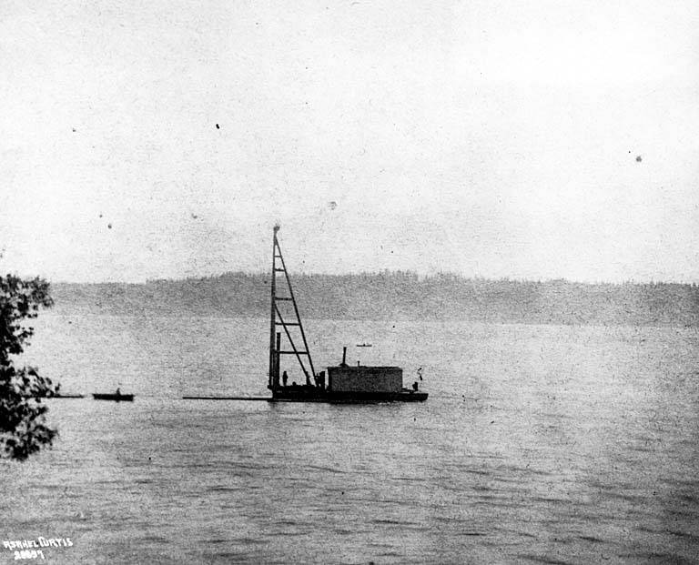 Original photograph by George Moore. Notation on Moore photograph says "May 4, 1874." Location was near later site of S. Weller St. and 1st Ave. S .See PH Coll 281 for original stereoview. Subjects (LCTGM): Pile drivers Subjects (LCSH): Piling (Civil engineering)--Washington (State)--Seattle